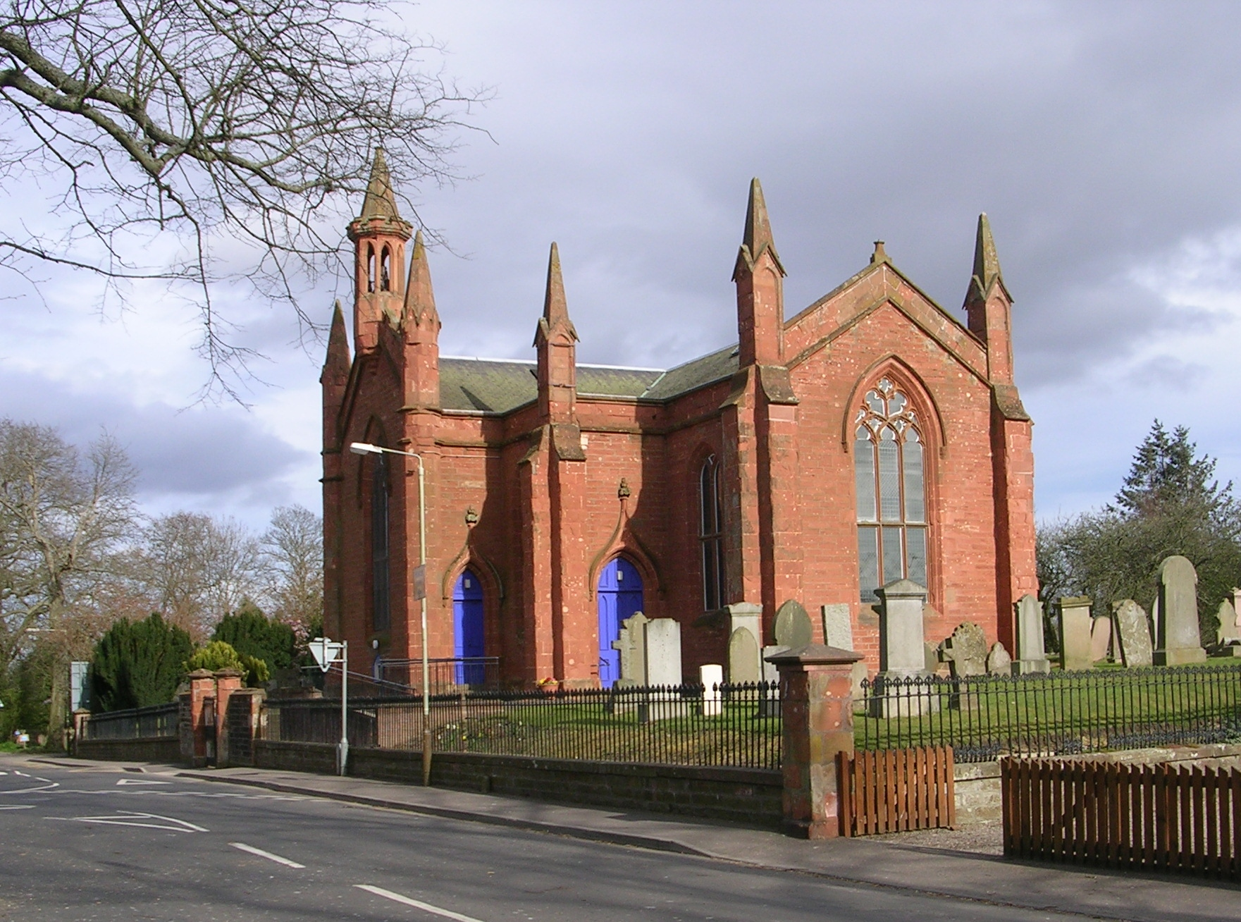 Parish church at Inchture, Perth ans Kinross, Scotland